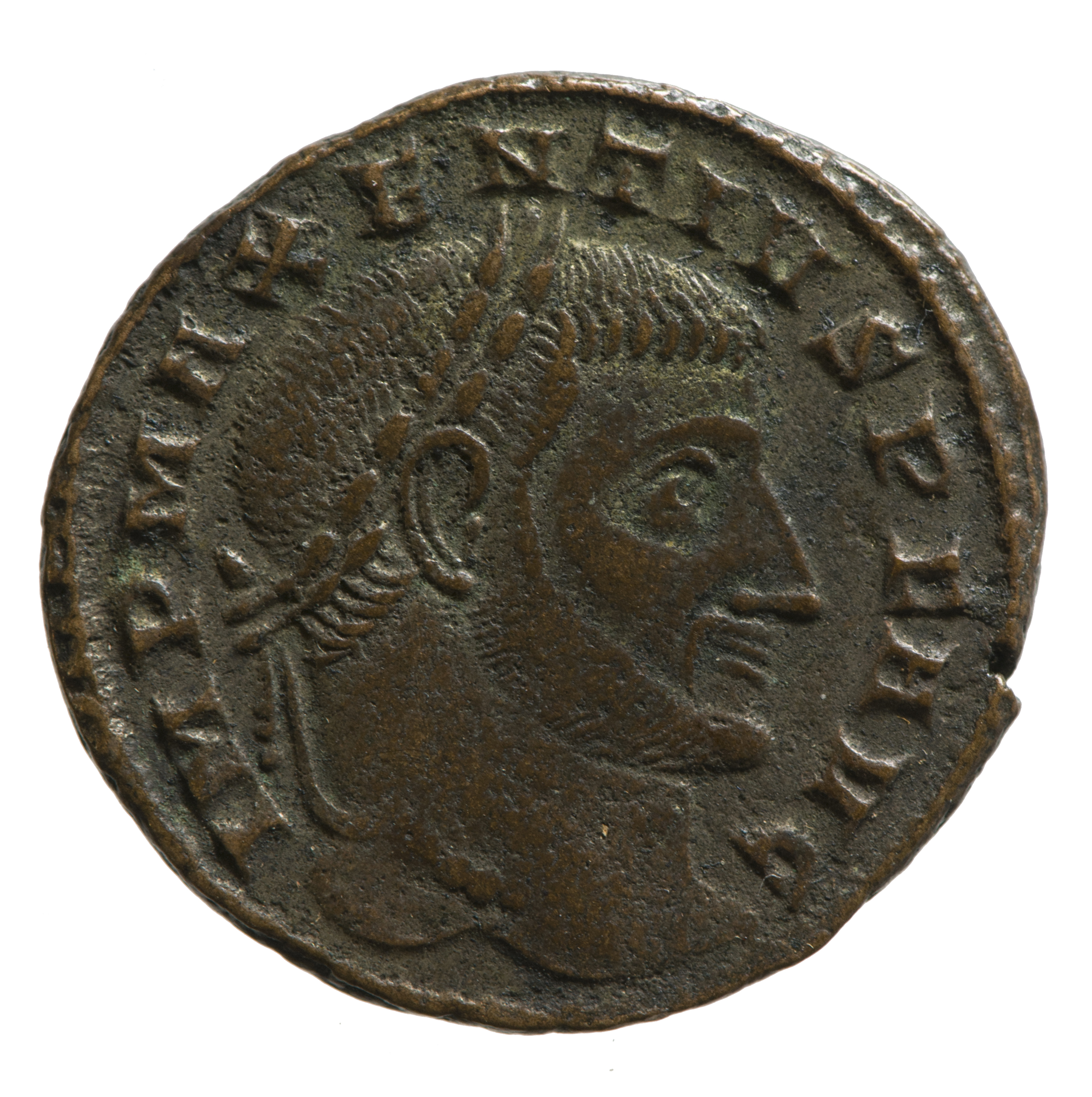 Obverse (front) of a nummus of Maxentius Head right laureate